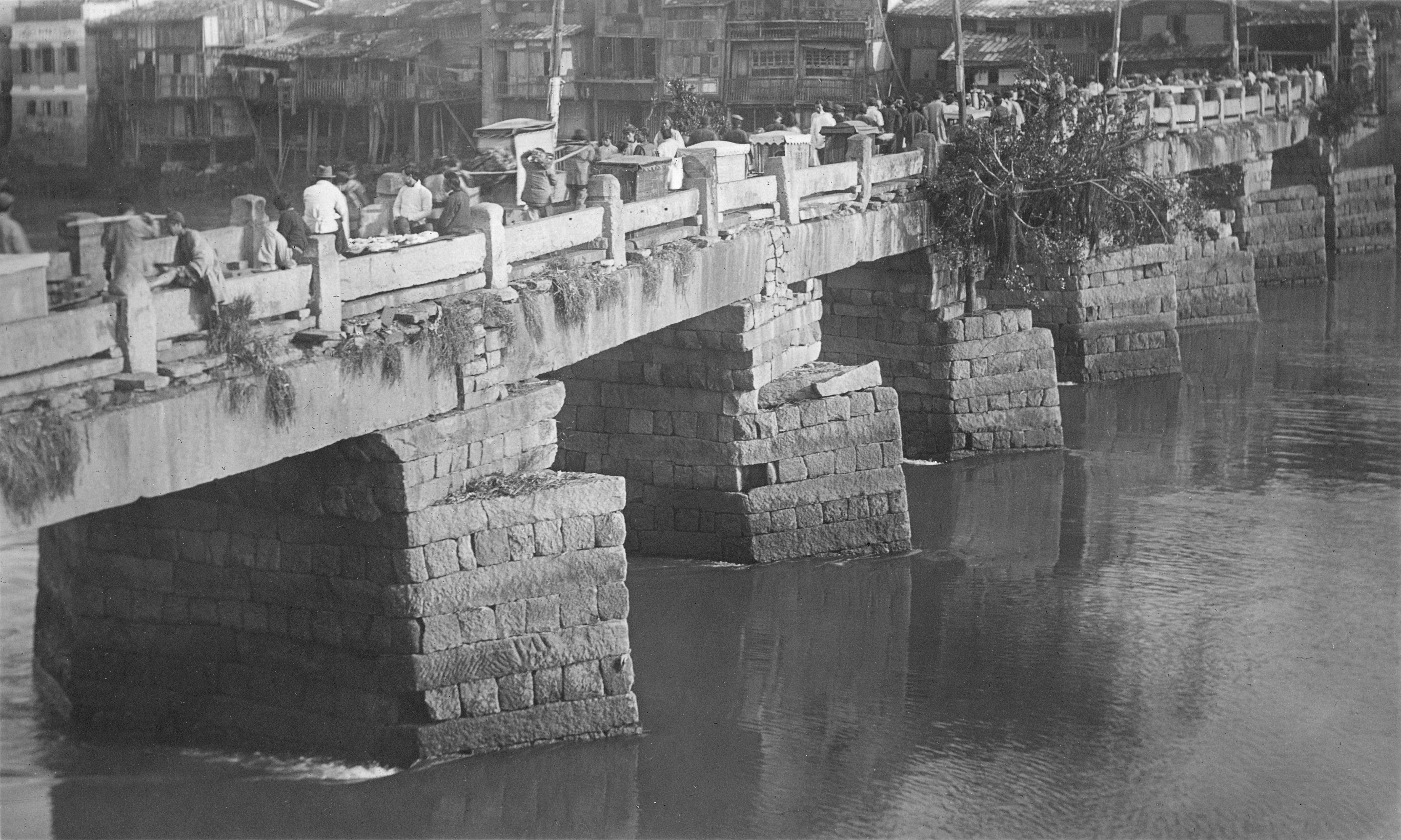 Bridge over river, Fuzhou, Fujian, China, ca.1911-1913 "Big Bridge, Foochow." Numerous pedestrians walking across the bridge. Bridge of Ten Thousand Ages